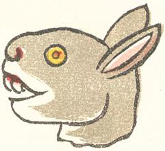 The Aztec day sign tochtli (rabbit).